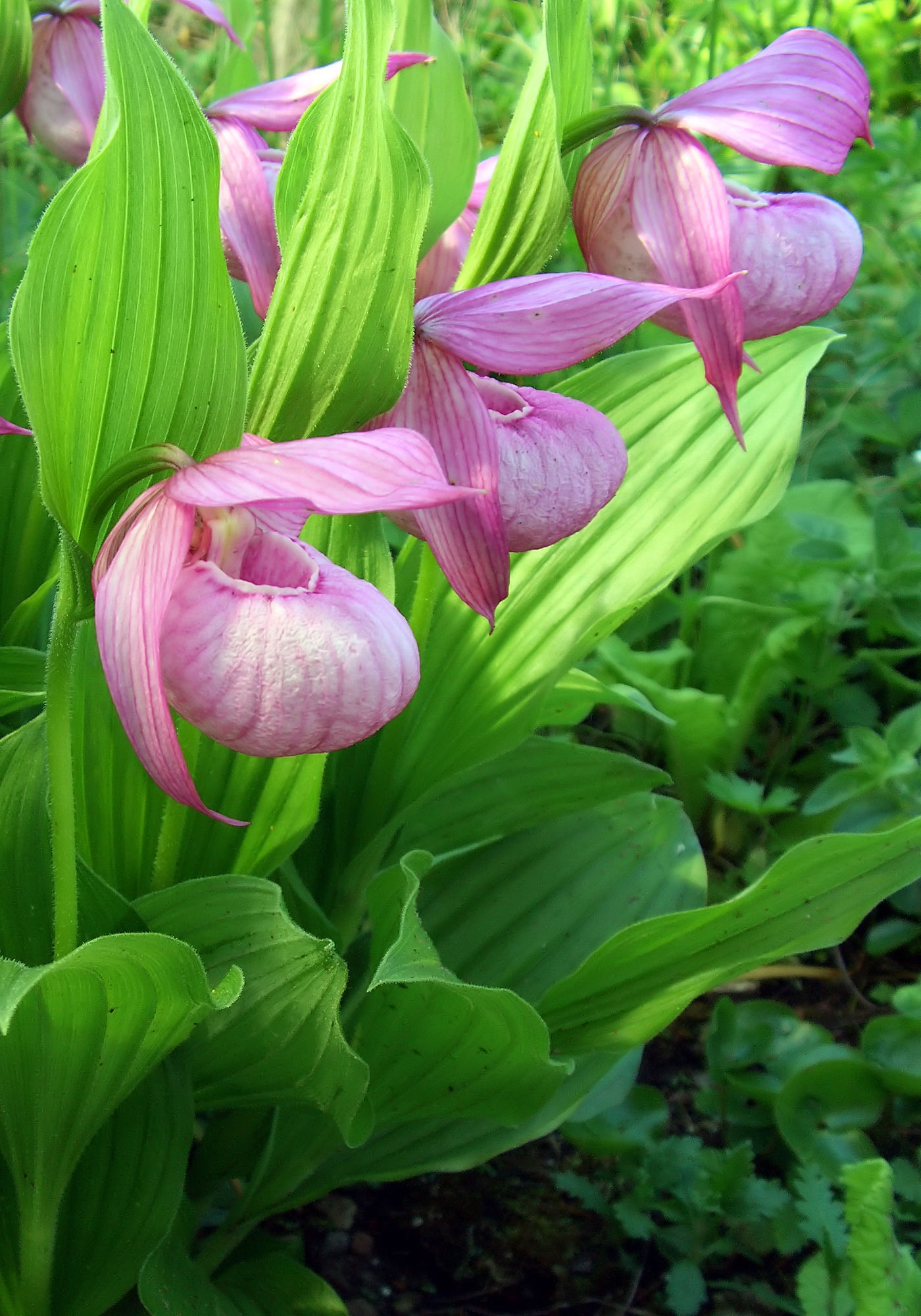 Cypripedium macranthos